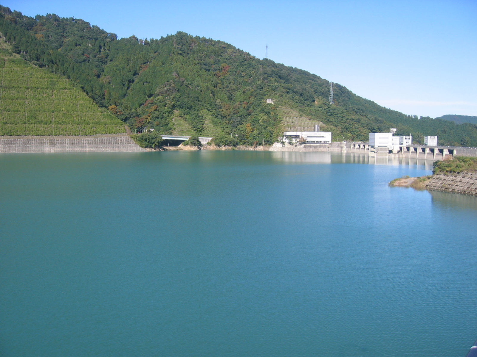 Lake Miyagase and Miyagase Dam (right), Kanagawa, Japan.